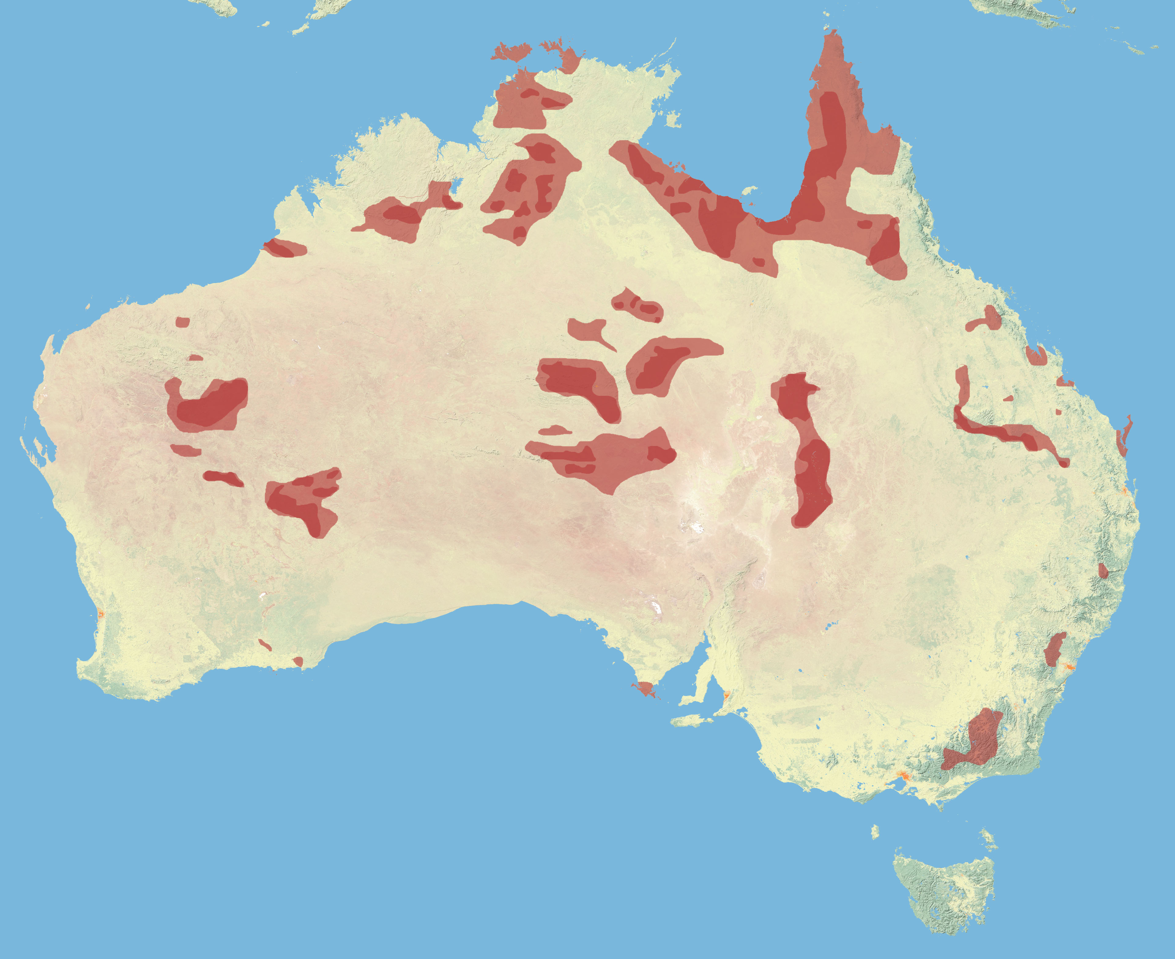 The Distribution of the Feral Horse in Australia According to the Department of Conservation